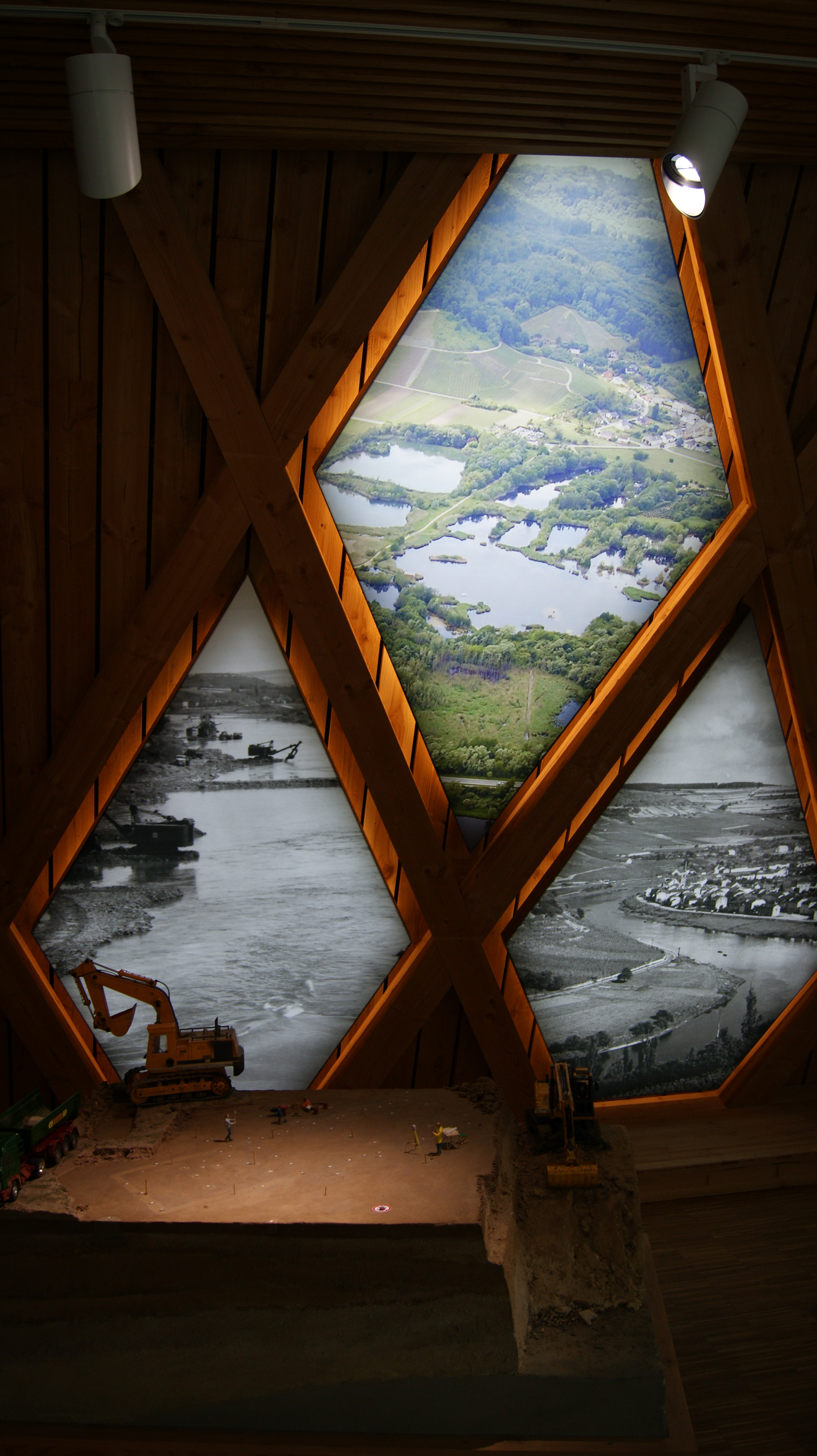 Nature Conservation Center / Visitor Center "Biodiversum - Camille Gira" (formerly "Nature et Forêt Biodiversum") in Remerschen (lux .: Rëmerschen or Riemëschen), municipality of Schengen in the Grand Duchy of Luxembourg. Architect: François Valentiny.